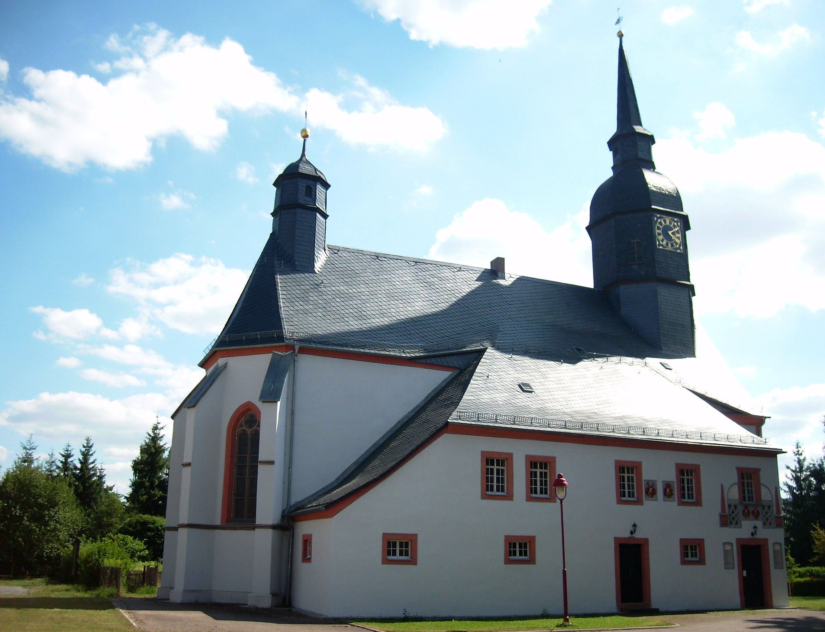 Church, Crossen an der Elster (district of Saale-Holzland-Kreis, Thuringia)